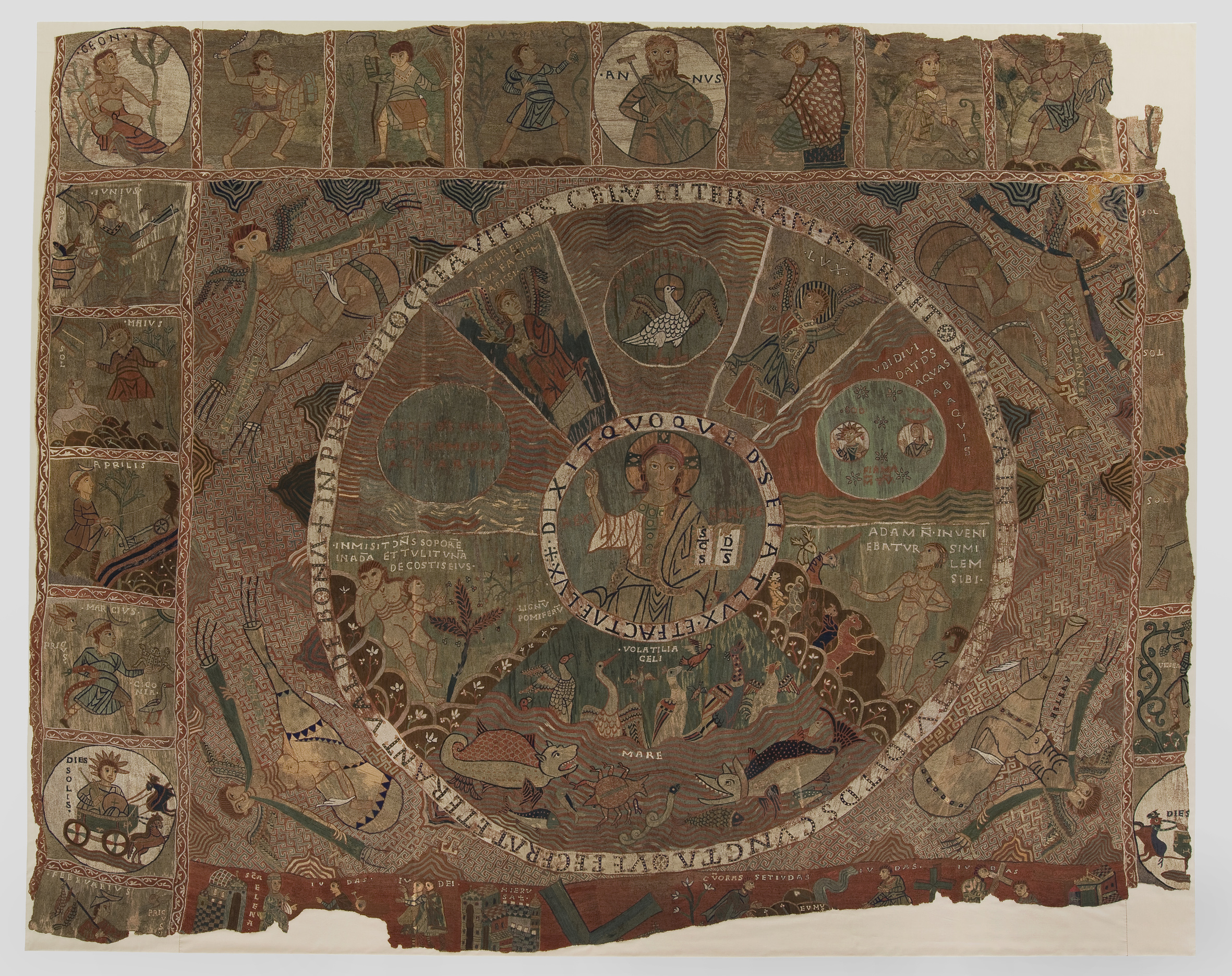 Tapestry of the Creation, 11th – 12th century, tapestry, 365 × 470 cm, Cathedral of Girona, Girona.